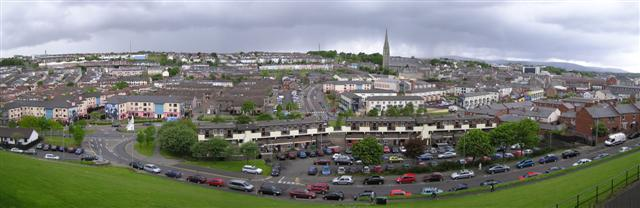 Derry / Londonderry One local radio presenter refers to this city as "Stroke City" or "Derry stroke Londonderry" It has also been known as the "Maiden City" as its walls were never actually breached in battle.